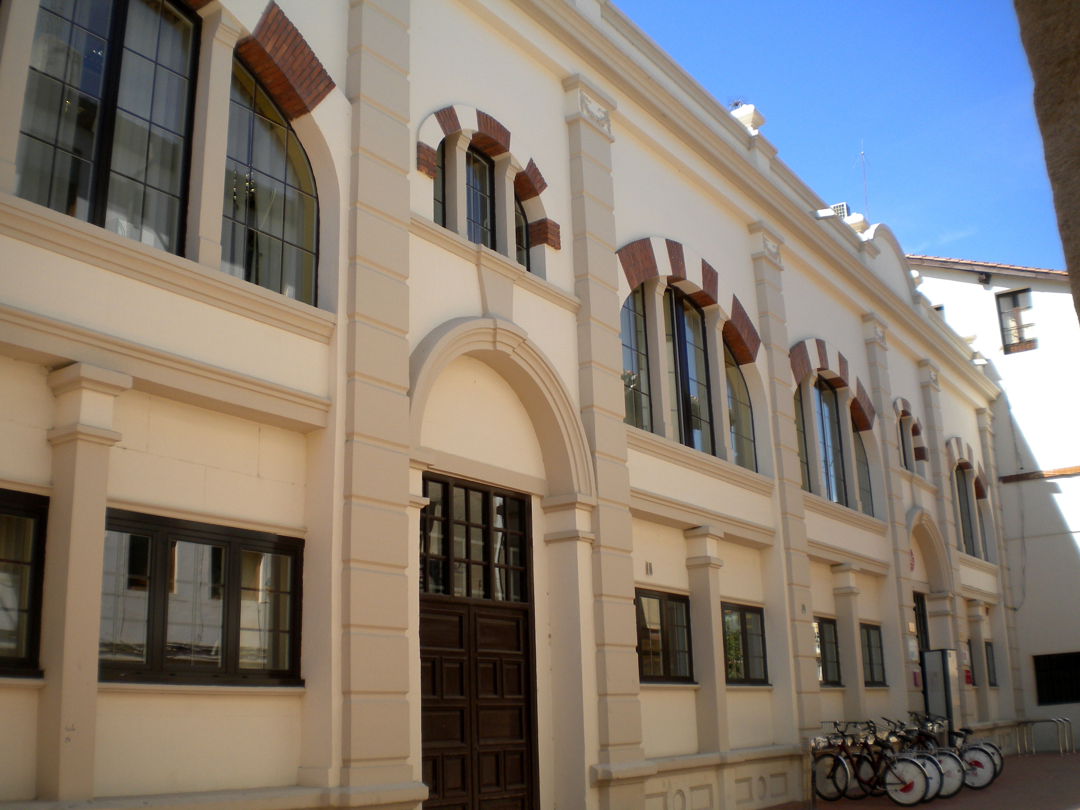 Extension of the Town Hall of Miranda de Ebro (Castile and León, Spain)